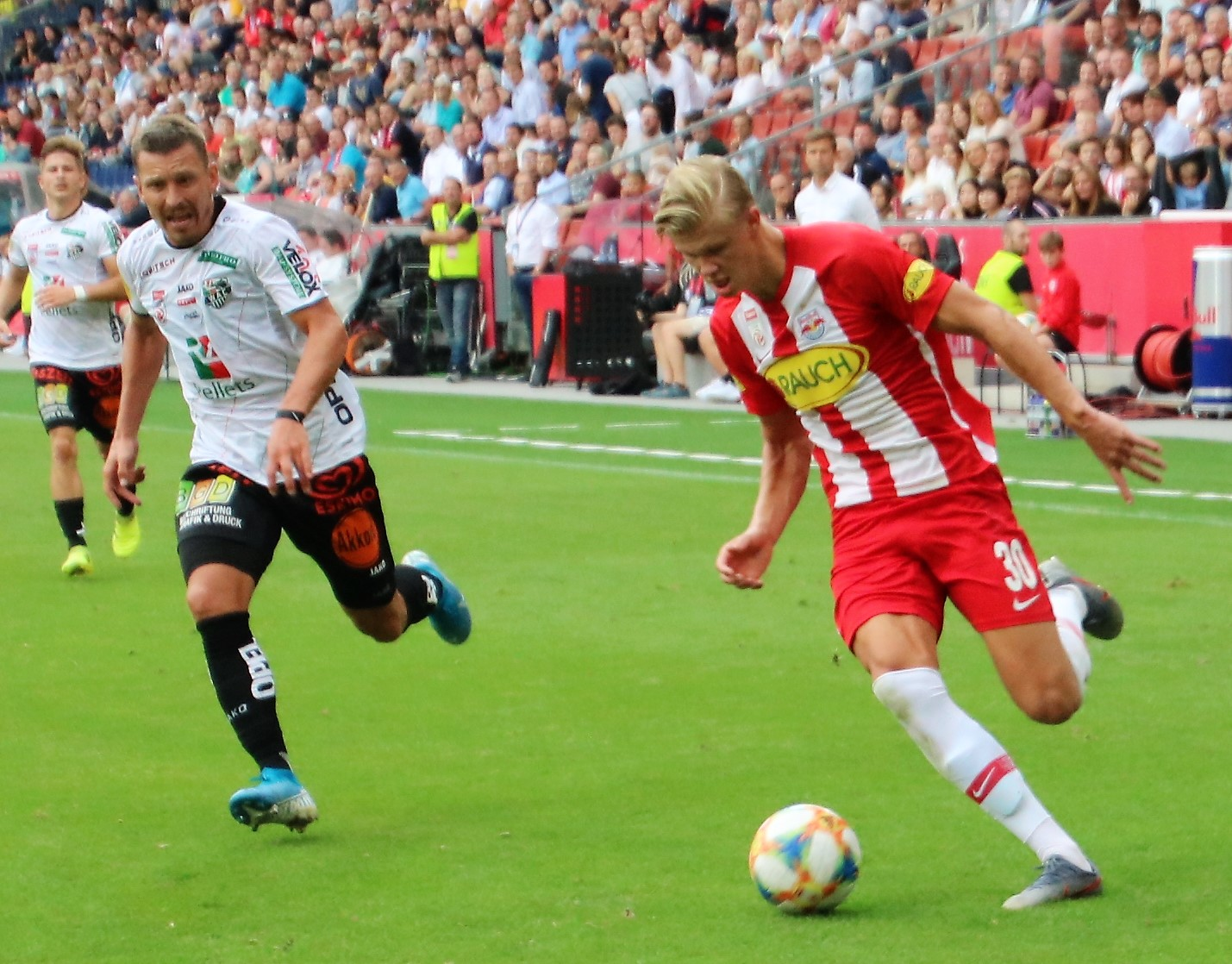 league match Austrian Bundesliga 3rd round